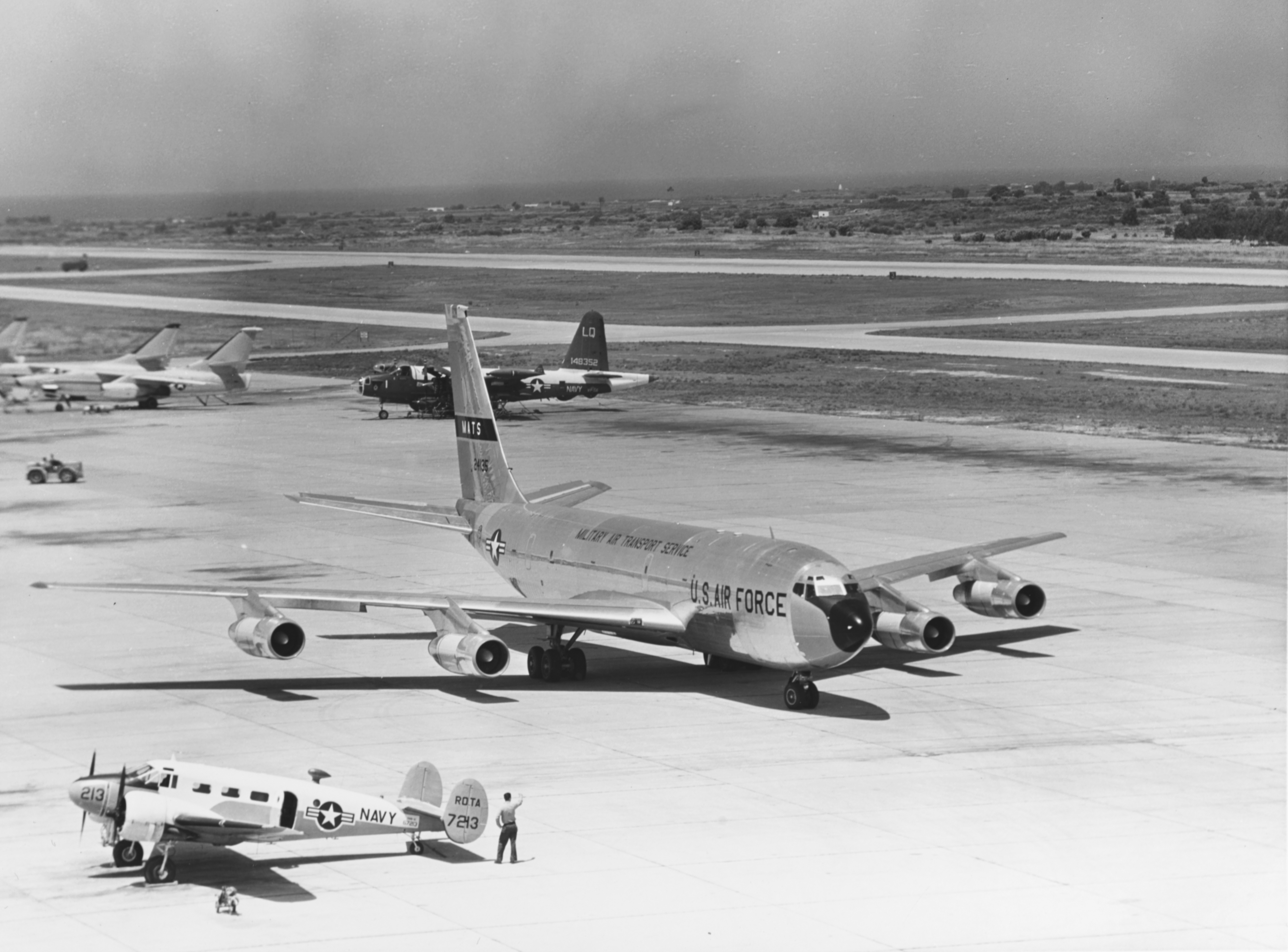 View of the airfield taxiway and parking area at the U.S. Naval Station, Rota, Spain, circa mid-1960s, with a U.S. Air Force Boeing C-135B-BN Stratolifter (s/n 62-4135) in the center. Also present are U.S. Navy aircraft, a Beech UC-45J (SNB-2) Navigator and a Lockheed SP-2H Neptune (BuNo 148352) of Patrol Squadron 56 (VP-56). In the background are three Douglas A-3 Skywarrior, the first being an EA-3B.